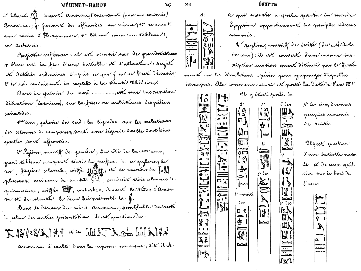 Champollion's description of the peoples named on the Second Pylon at Medinet Habu Champollion wrote: "Ces cinq derniers peuples nommés de suite. Il y est question d'une battle navale et de ceux quil tua sur le bord de l'eau"